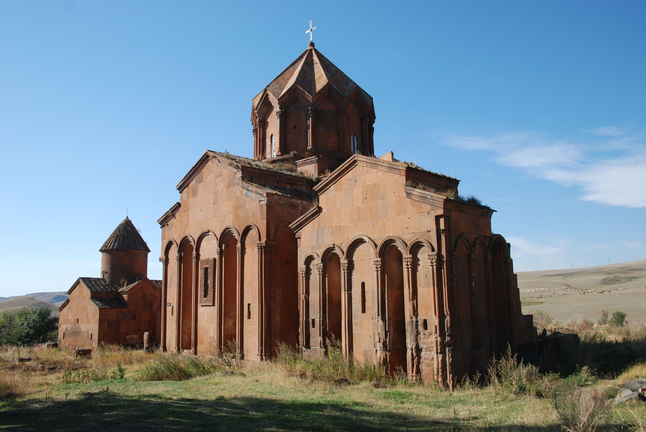 Marmashen, churches from east